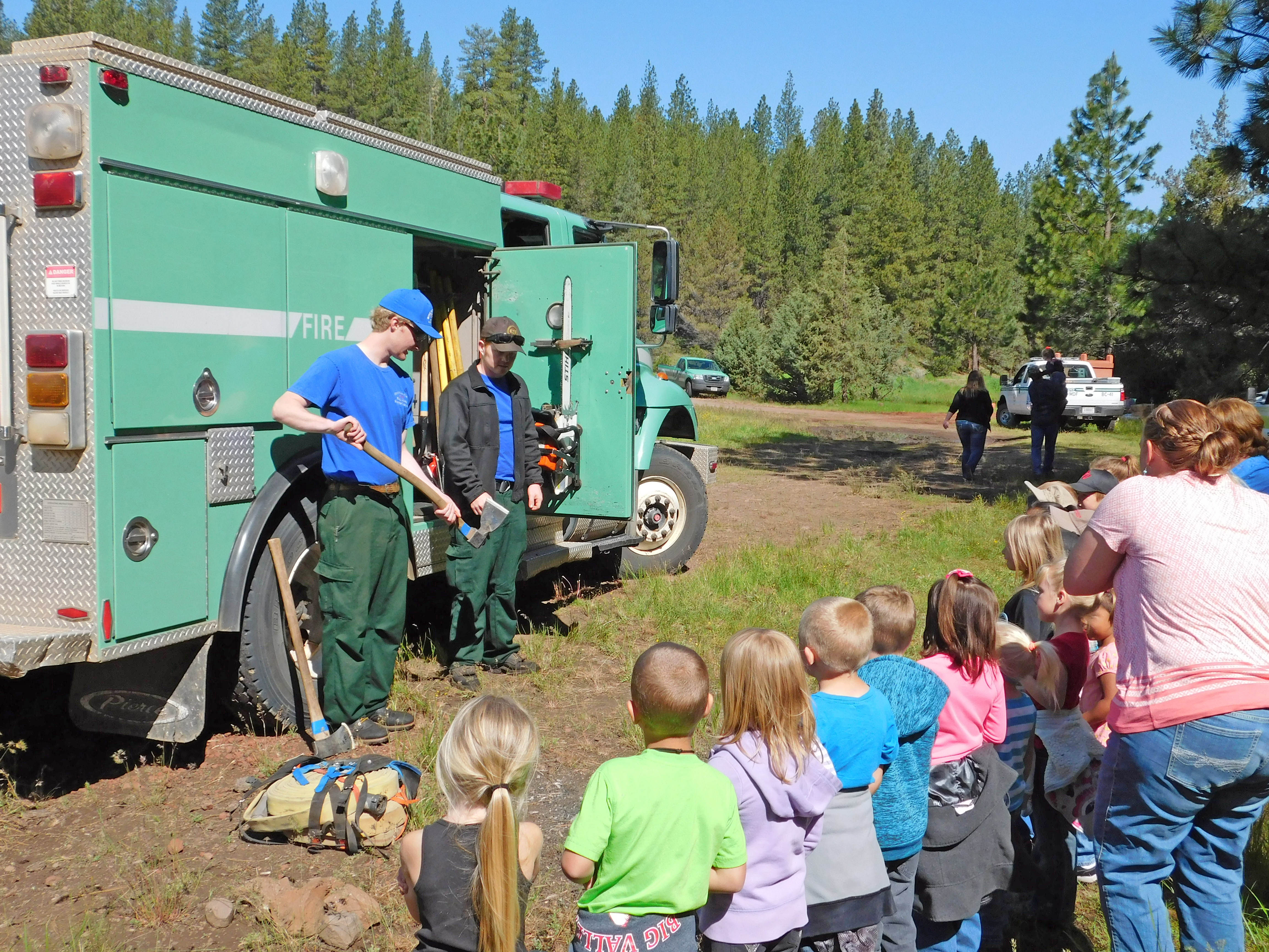 Fire personnel from the U.S. Forest Service brought Big Valley school children to Ash Creek Campground on the Big Valley Ranger District for a day of fire prevention and conservation education activities for their annual “Kids in the Woods” event May 26, 2016. The program provides an outdoor learning experience for the children with events covering campfire safety, good vs. bad fires, wildland firefighting and a visit with Smokey Bear! The program, coordinated with the help of school teachers, parents and community volunteers, is designed to enhance environmental literacy and share the value of healthy wildland fire.